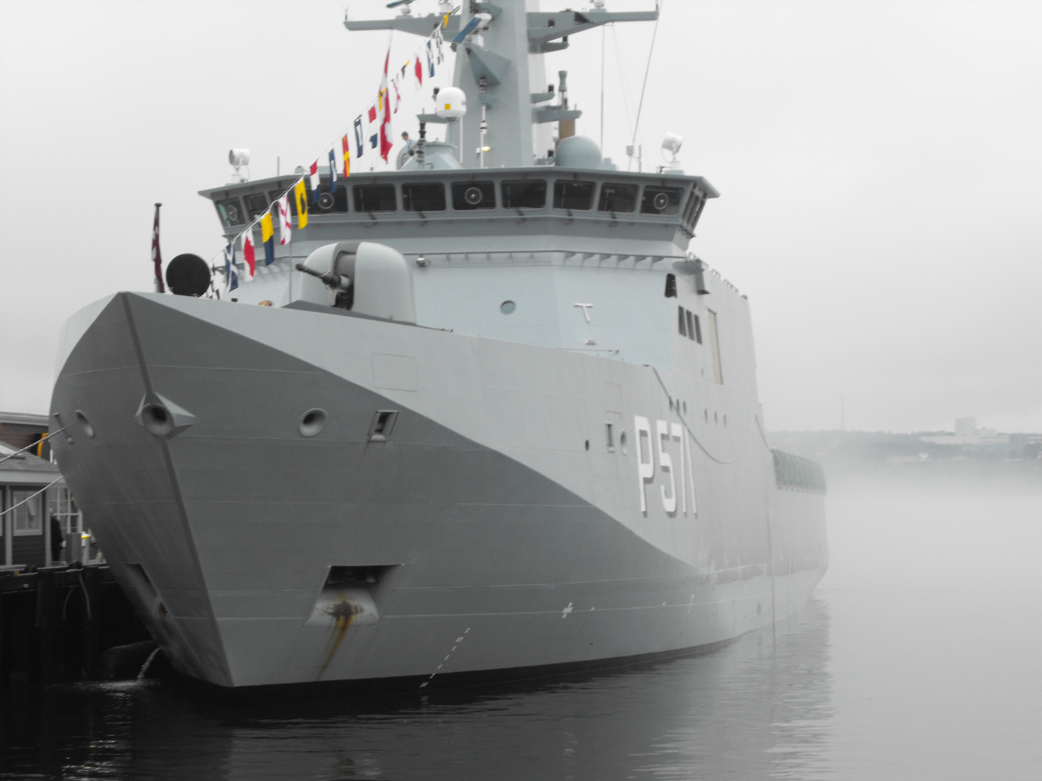 HDMS Ejnar Mikkelsen (P571) in Halifax, Nova Scotia